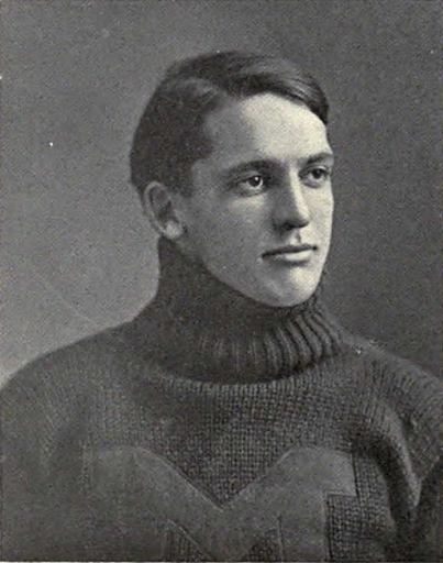 Photograph of Boss Weeks